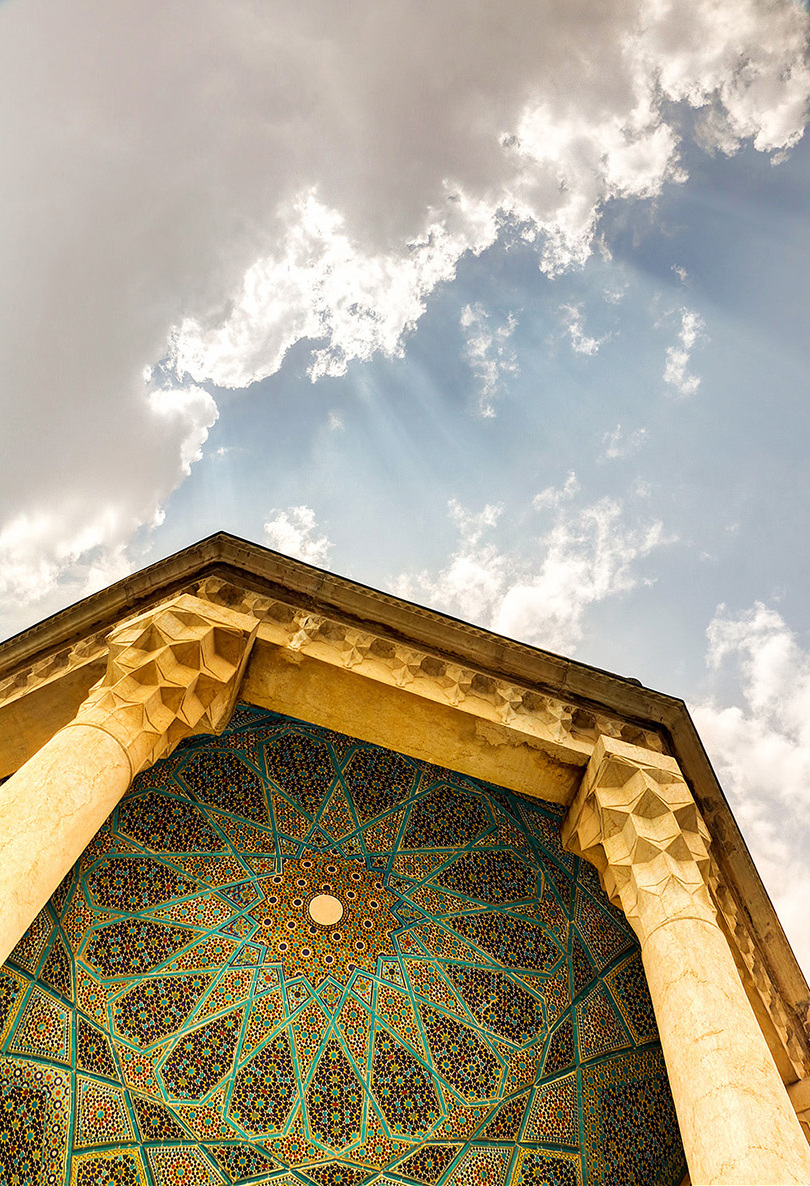 Tomb of HAFEZ(SHIRAZ)